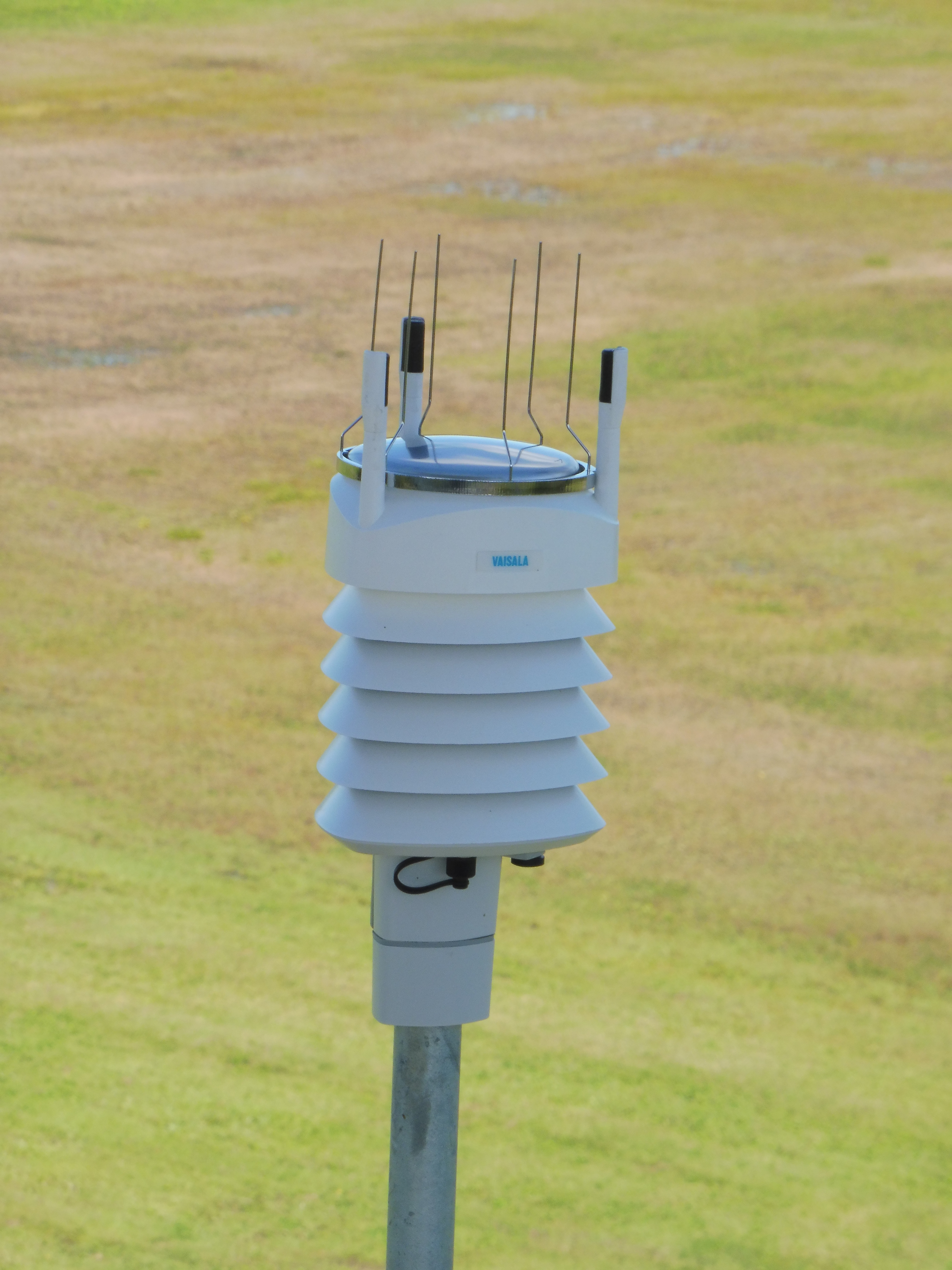 Automatic weather station Vaisala WXT536 associated with CASBV radar of the Canadian weather radar network. It measures environmental conditions (temperature, wind, precipitation, etc...) at the site for monitoring purpose. Details about the station can be found at Vaisala.